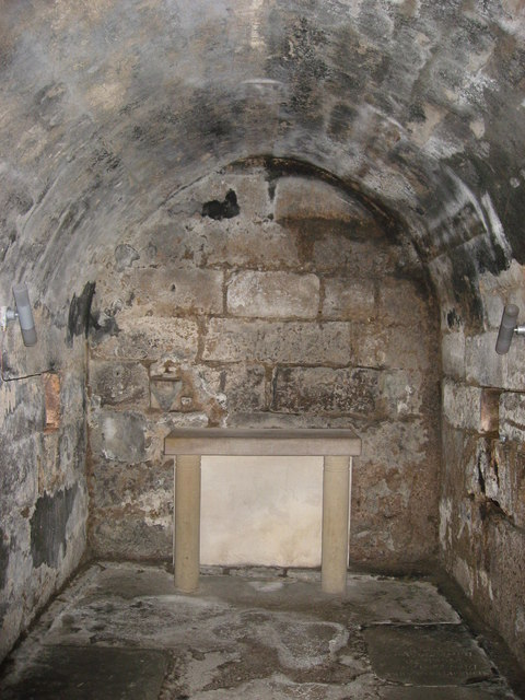 7th century Crypt in Hexham Abbey